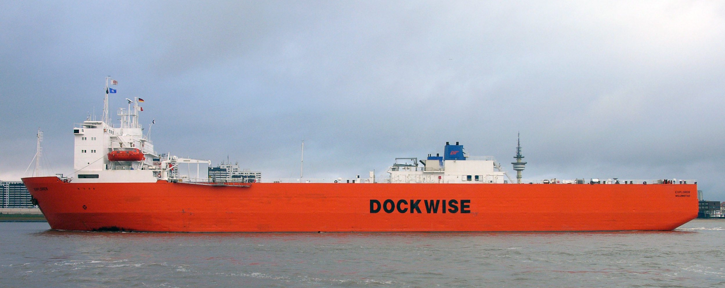 Explorer Information about Explorer may be found at IMO 8116051.A ship can change name and flag state through time, but the IMO number remains the same through the hull's entire lifetime. As a result, it can be useful to identify a ship by using the IMO number.